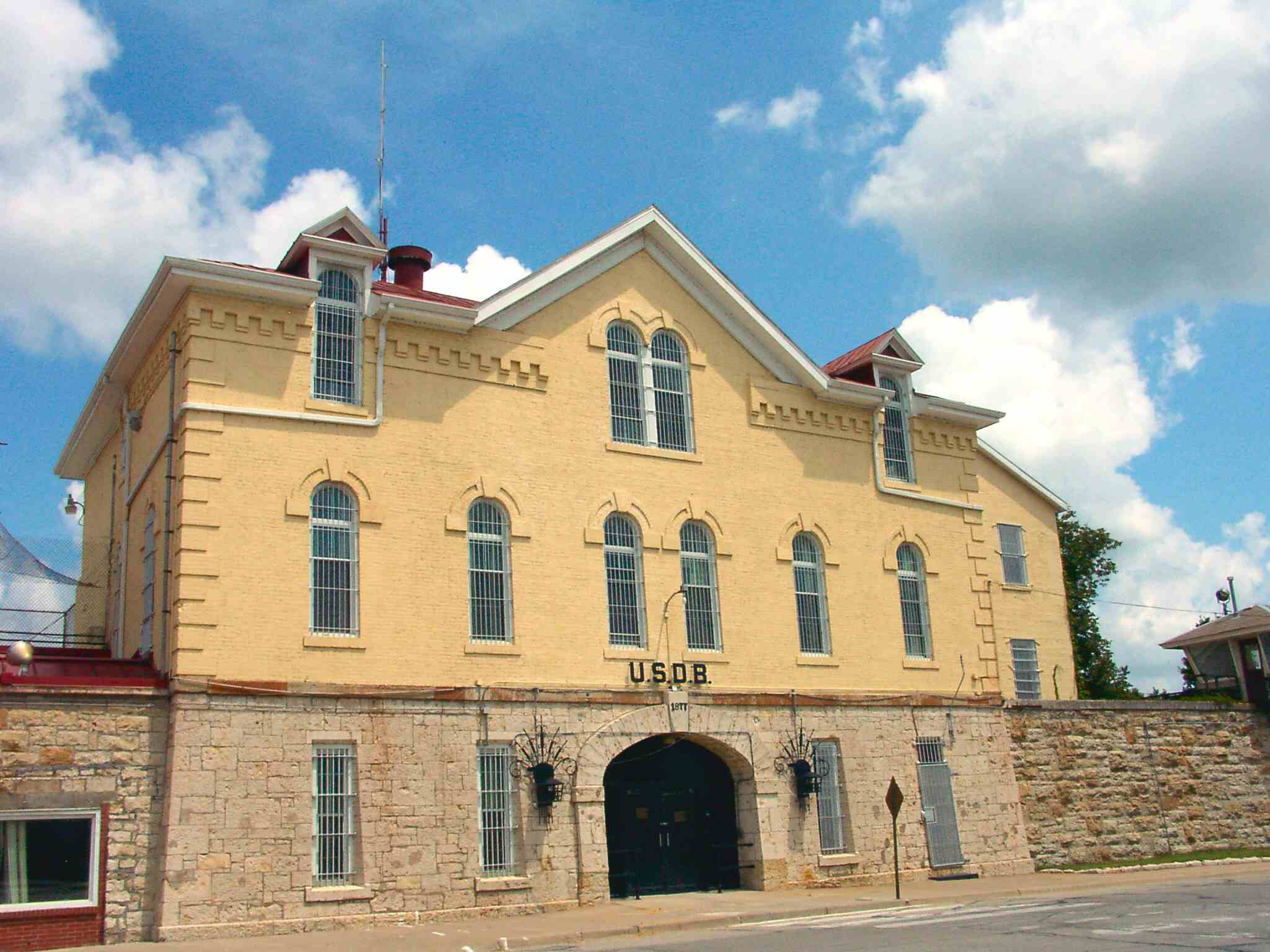 United States Disciplinary Barracks main entrance. Note 1877 placard at center above double doors.